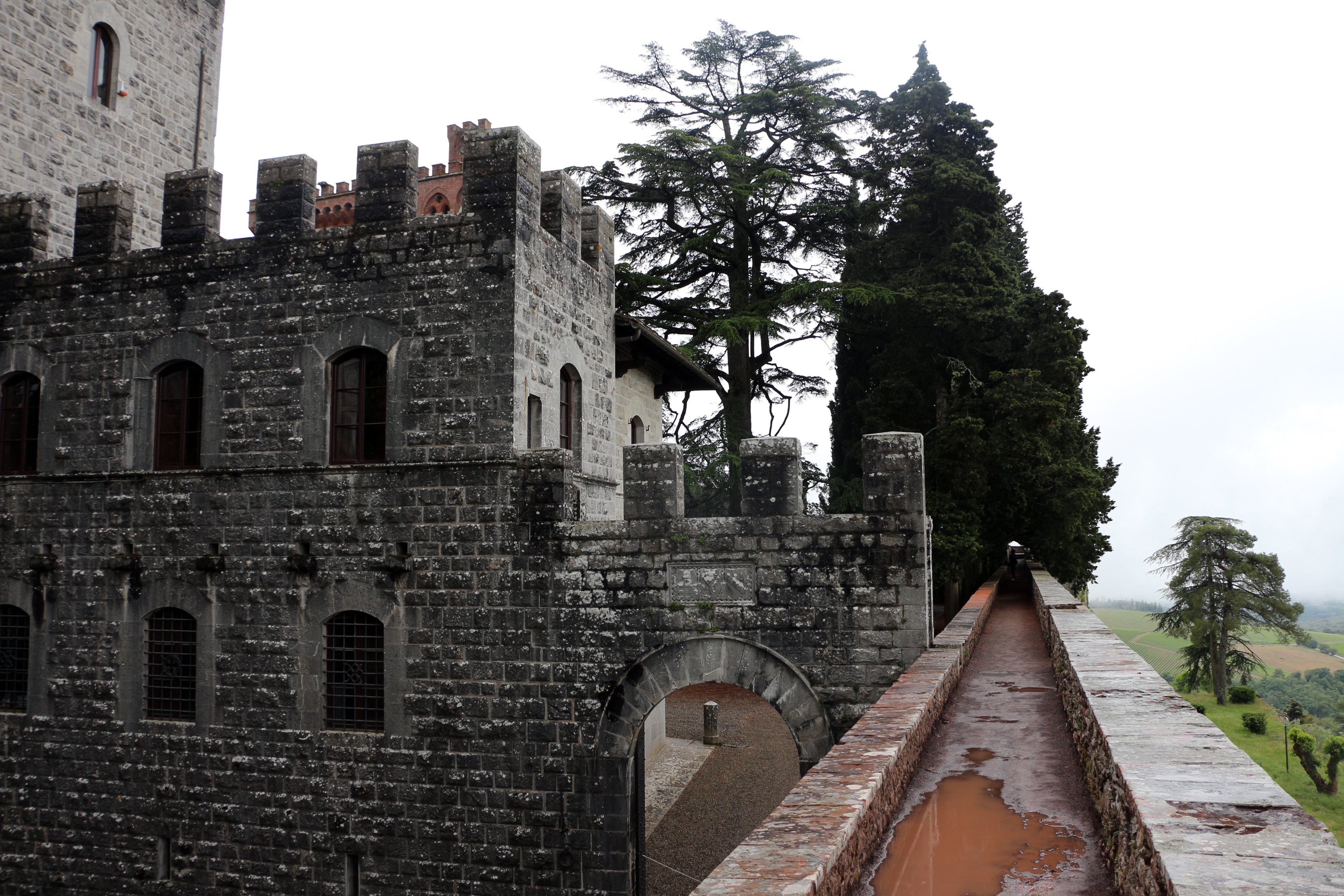 Castello di Brolio